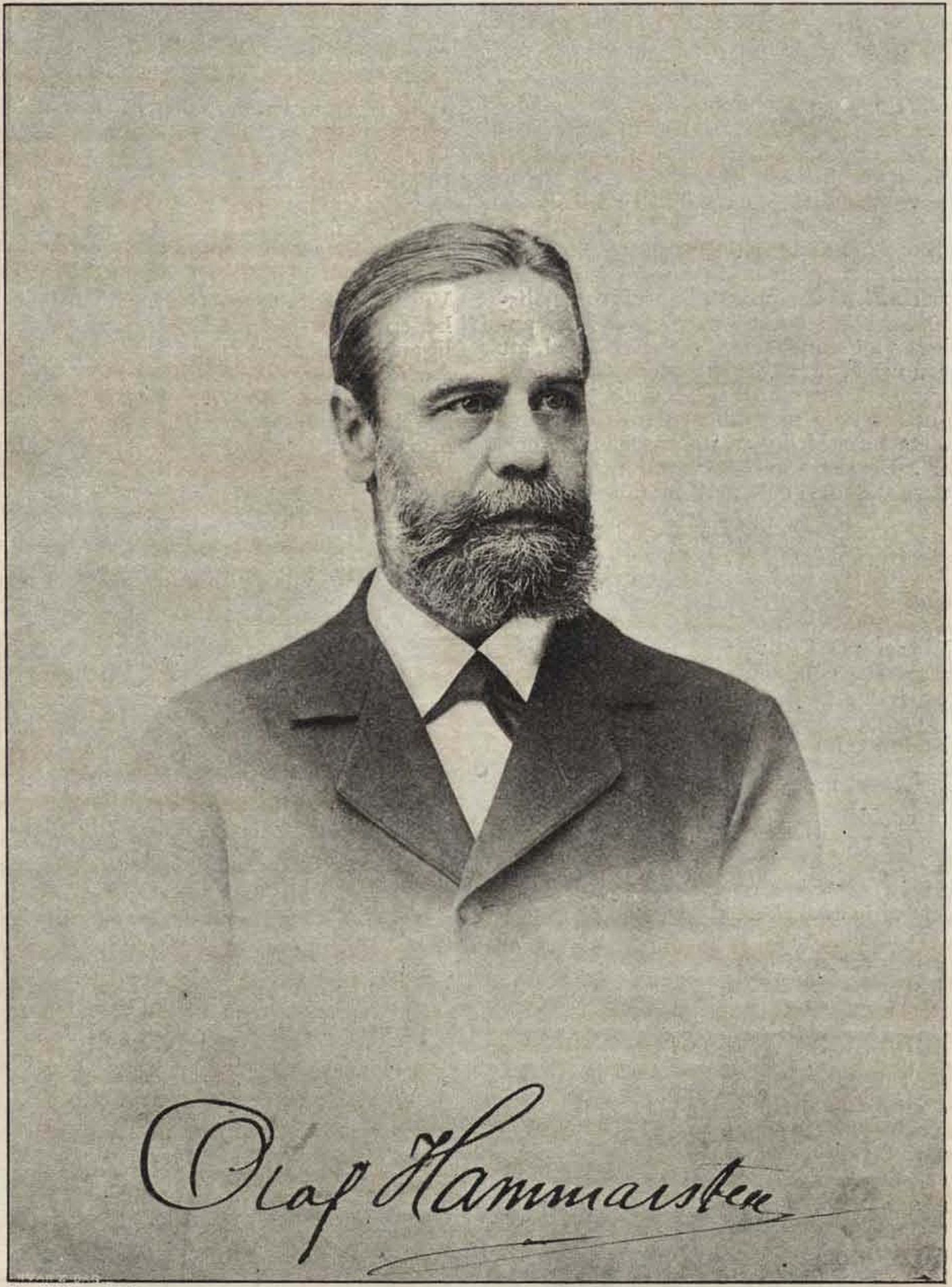 Olof Hammarsten (1841-1932)